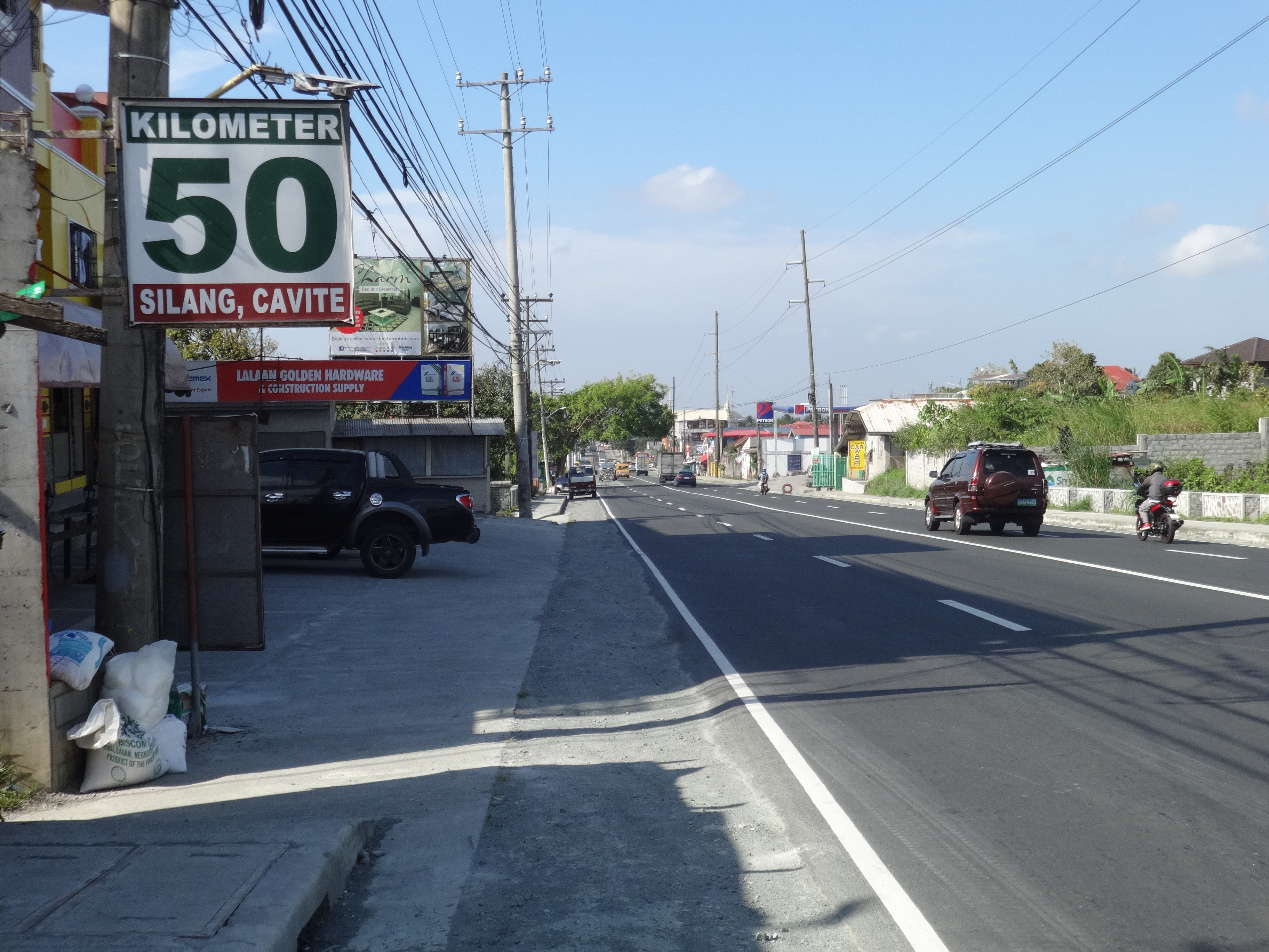 KM 50 of Aguinaldo Highway - (part of Metrro Manila Radial Road 2) in Silang, Cavite.